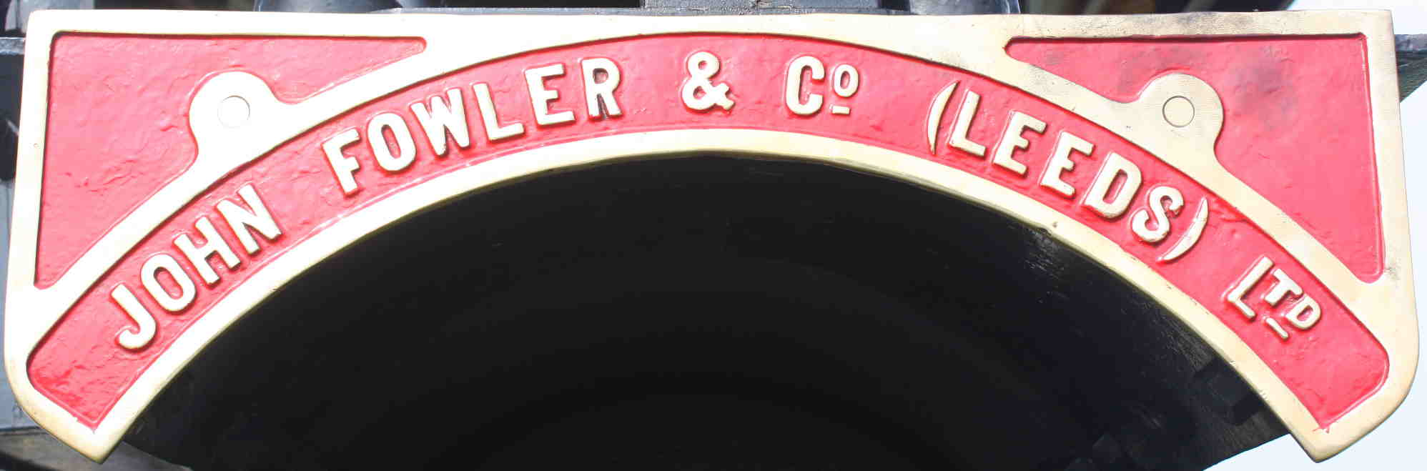 The detail of the Fowler Brass nameplate fitted to the end of the Dynamo support frame on their Showmans Locomotives.